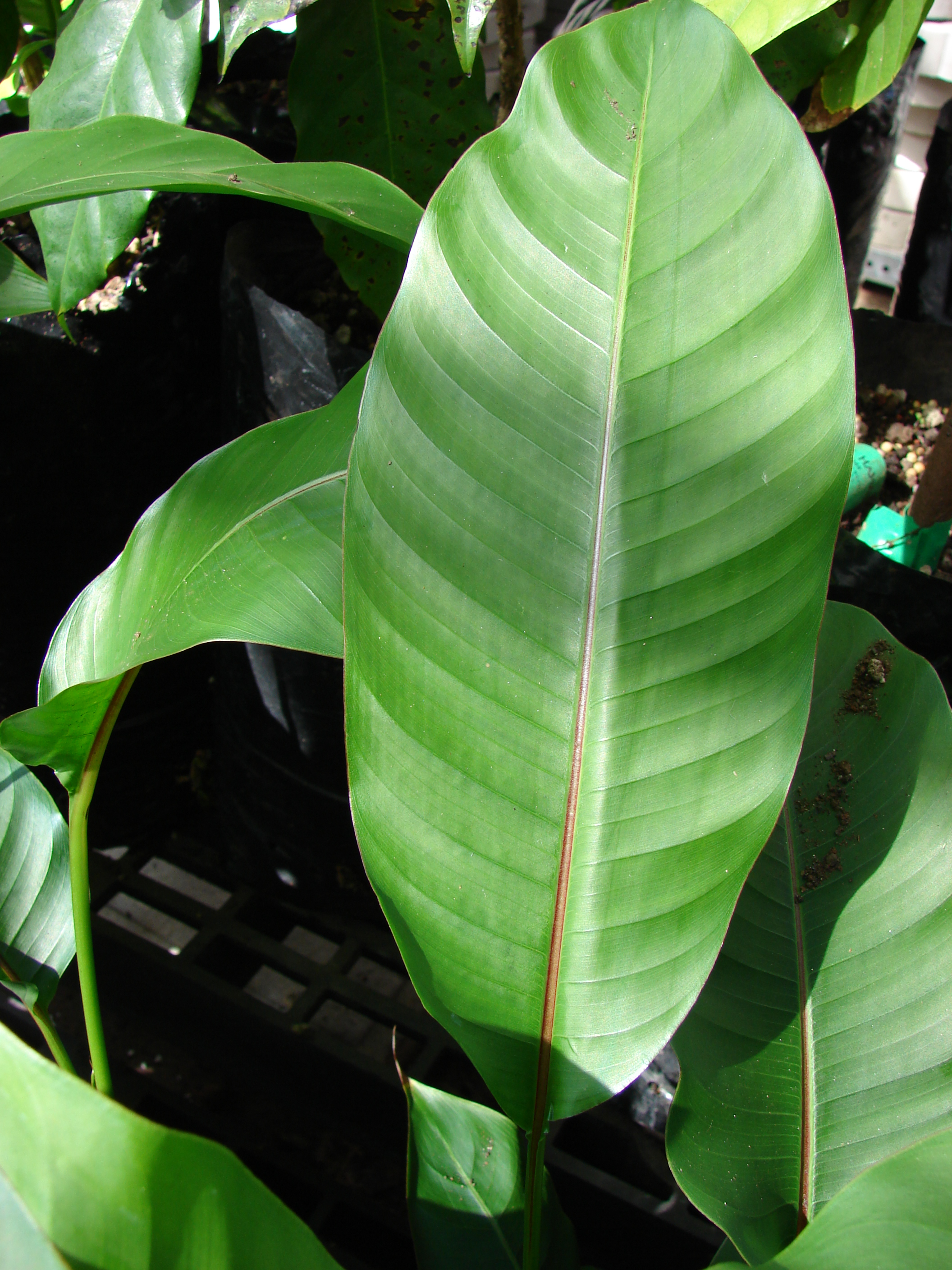 Heliconia stricta (Dwarf Jamaican leaf). Location: Maui, Kula Ace Hardware and Nursery